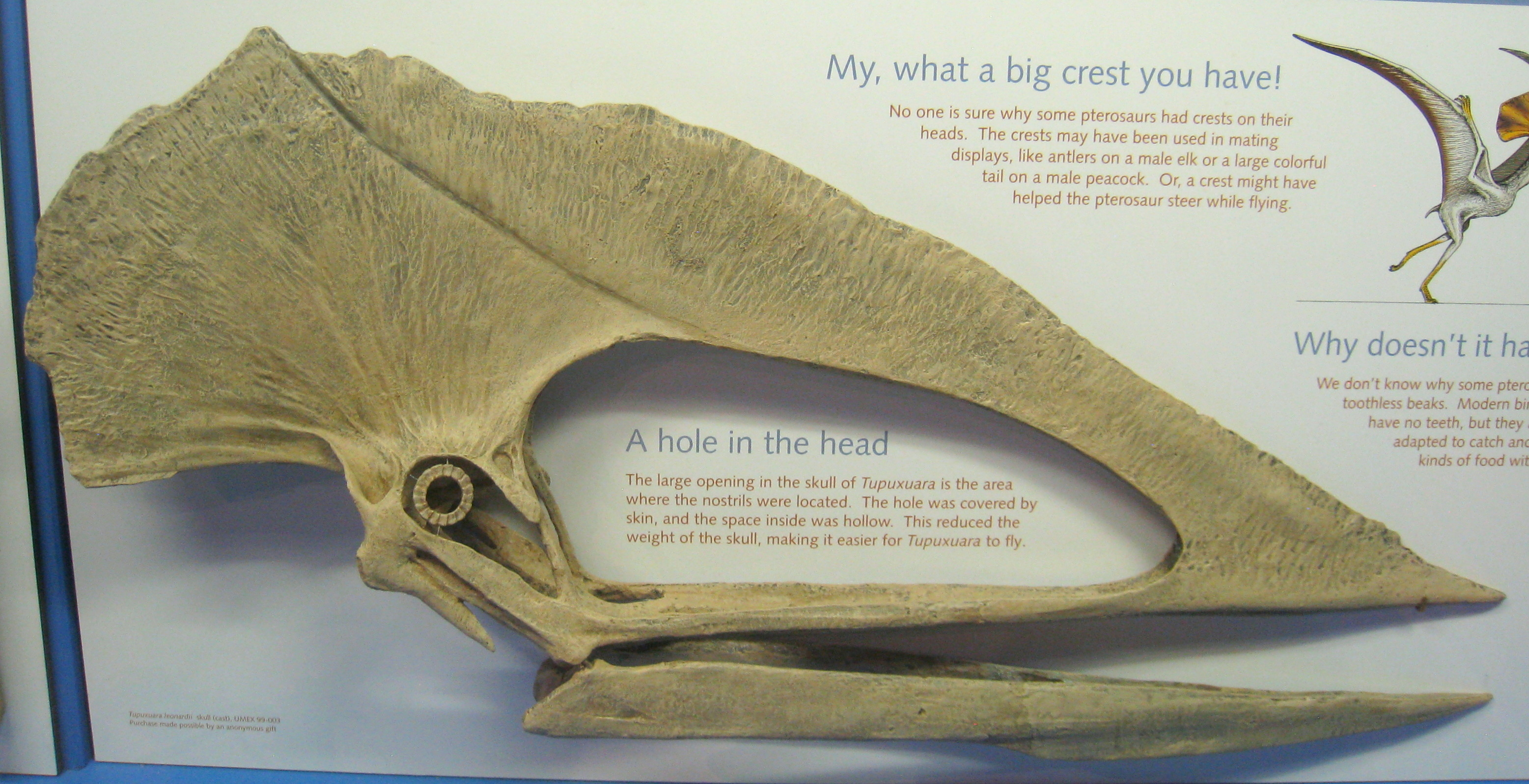 Cast of Tupuxuara leonardii skull. Exhibit Museum of Natural History, University of Michigan, 1109 Geddes Avenue, Ann Arbor, Michigan, USA.